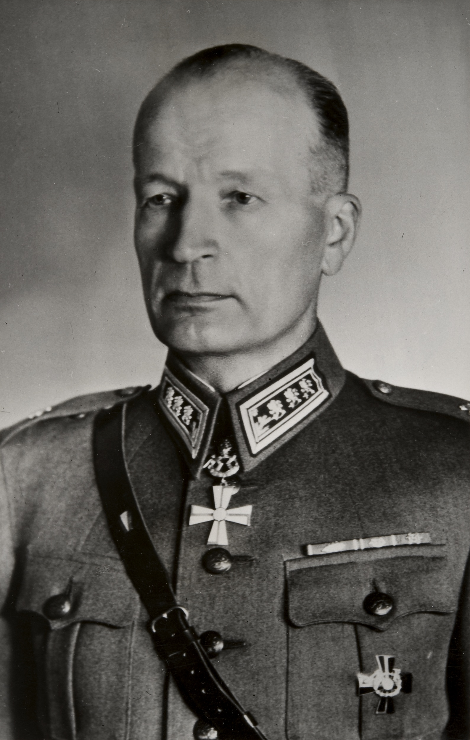 Photograph of the Chief of Defence of the Finnish Defence Forces Kaarlo Heiskanen (1894–1962).